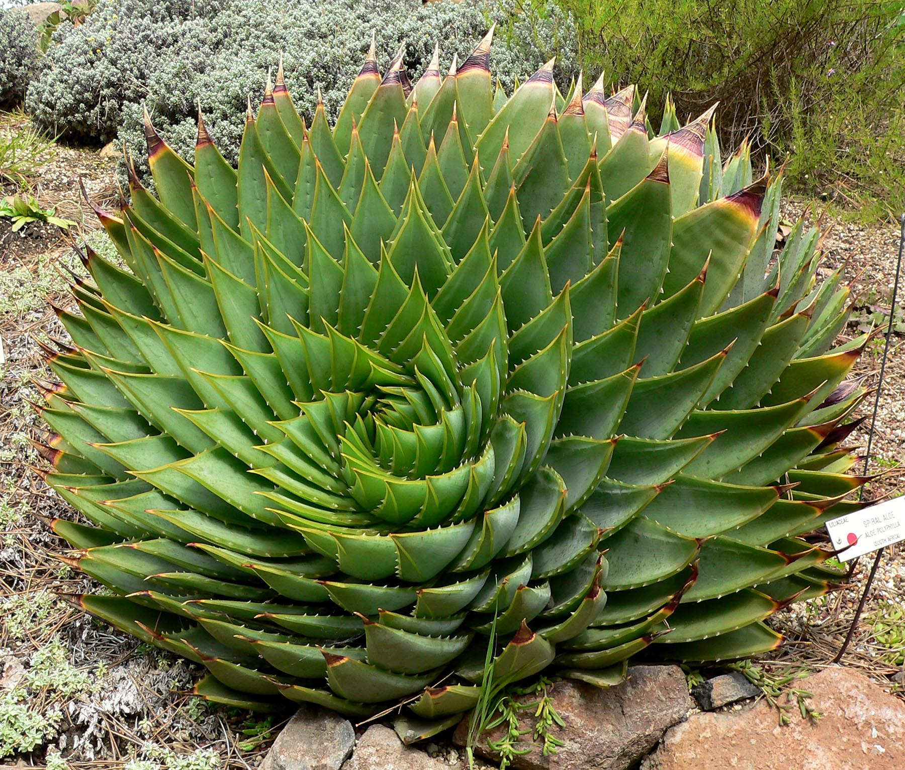 Photo of Aloe polyphylla at the University of California Botanical Garden